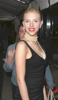 Scarlett Johansson at the premiere of a Girl With a Pearl Earring, Toronto Film Festival 2003.